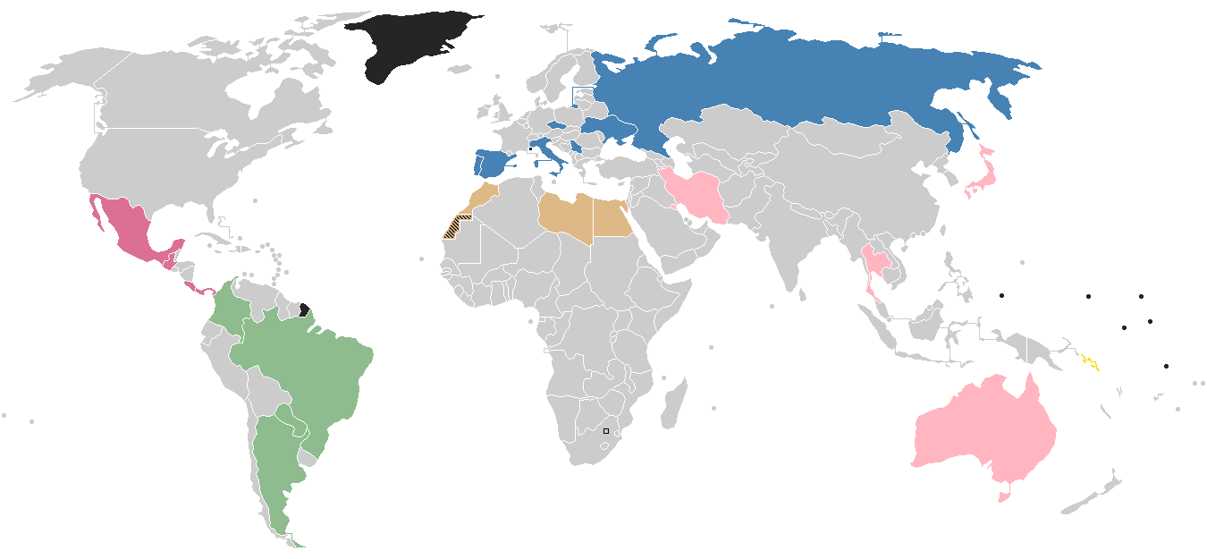 2012 FIFA Futsal World Cup qualified nations with federation colors